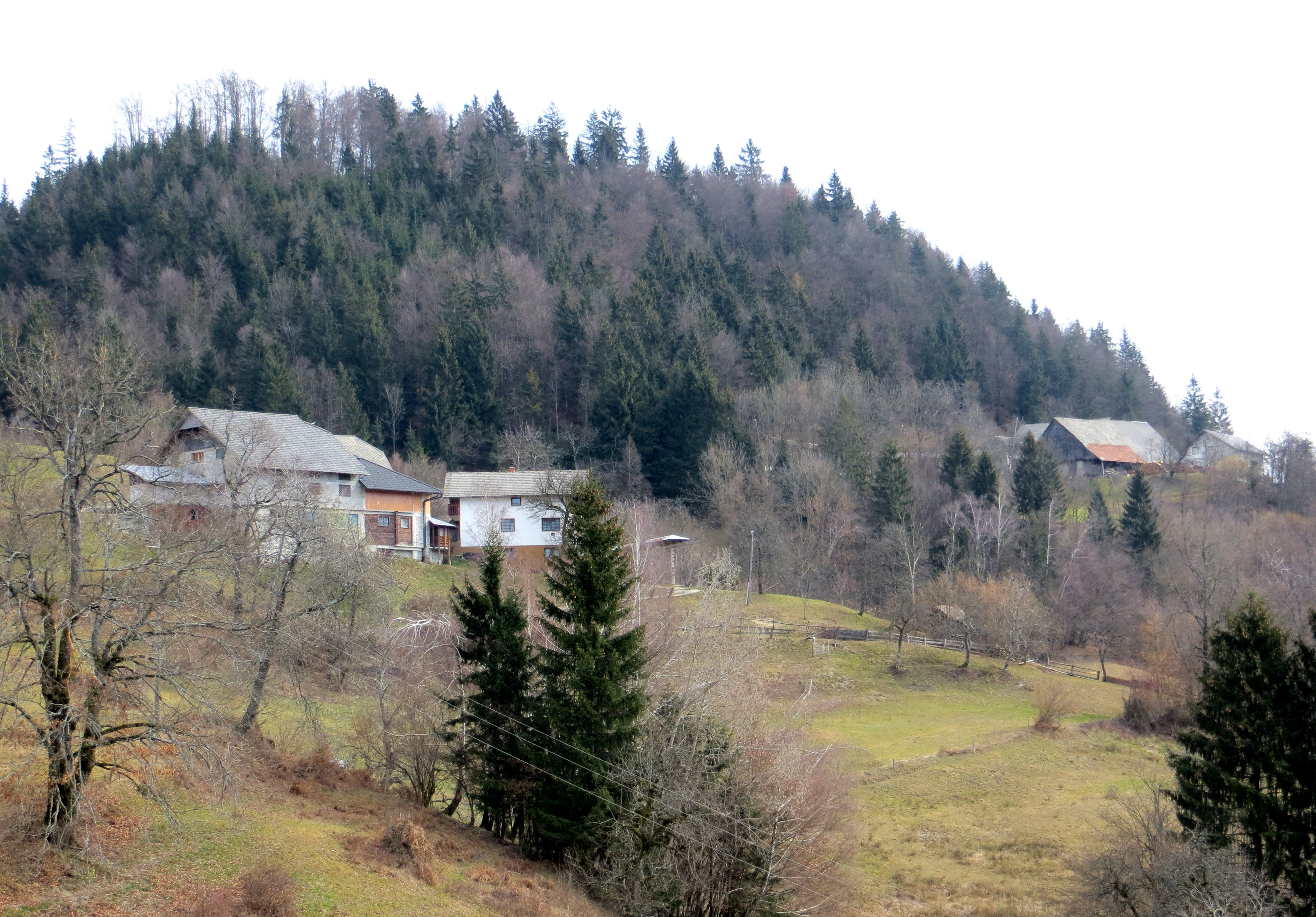 Žubejevo, Municipality of Kamnik, Slovenia